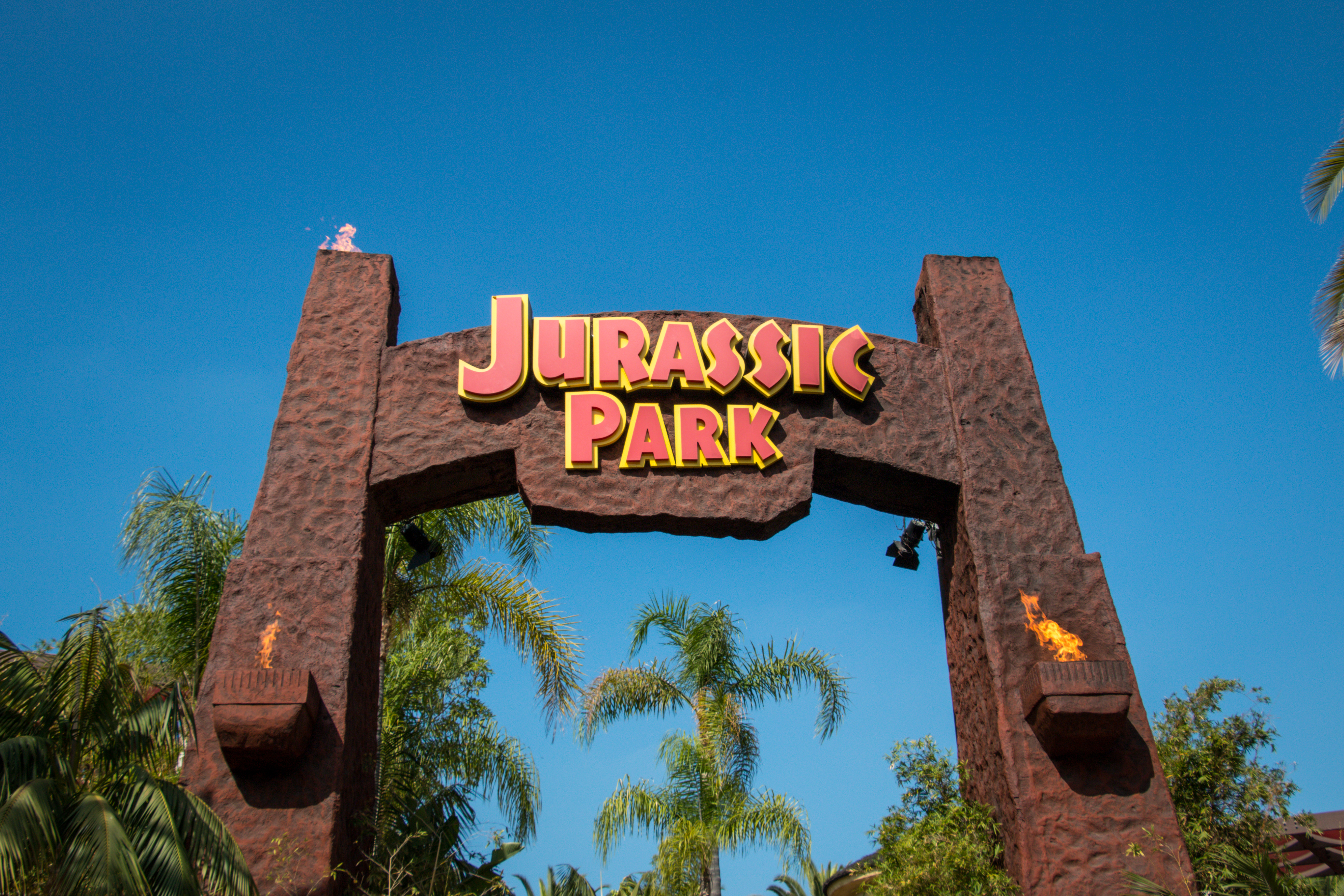 Entrance to the Jurassic Park area at Universal Studios Hollywood.